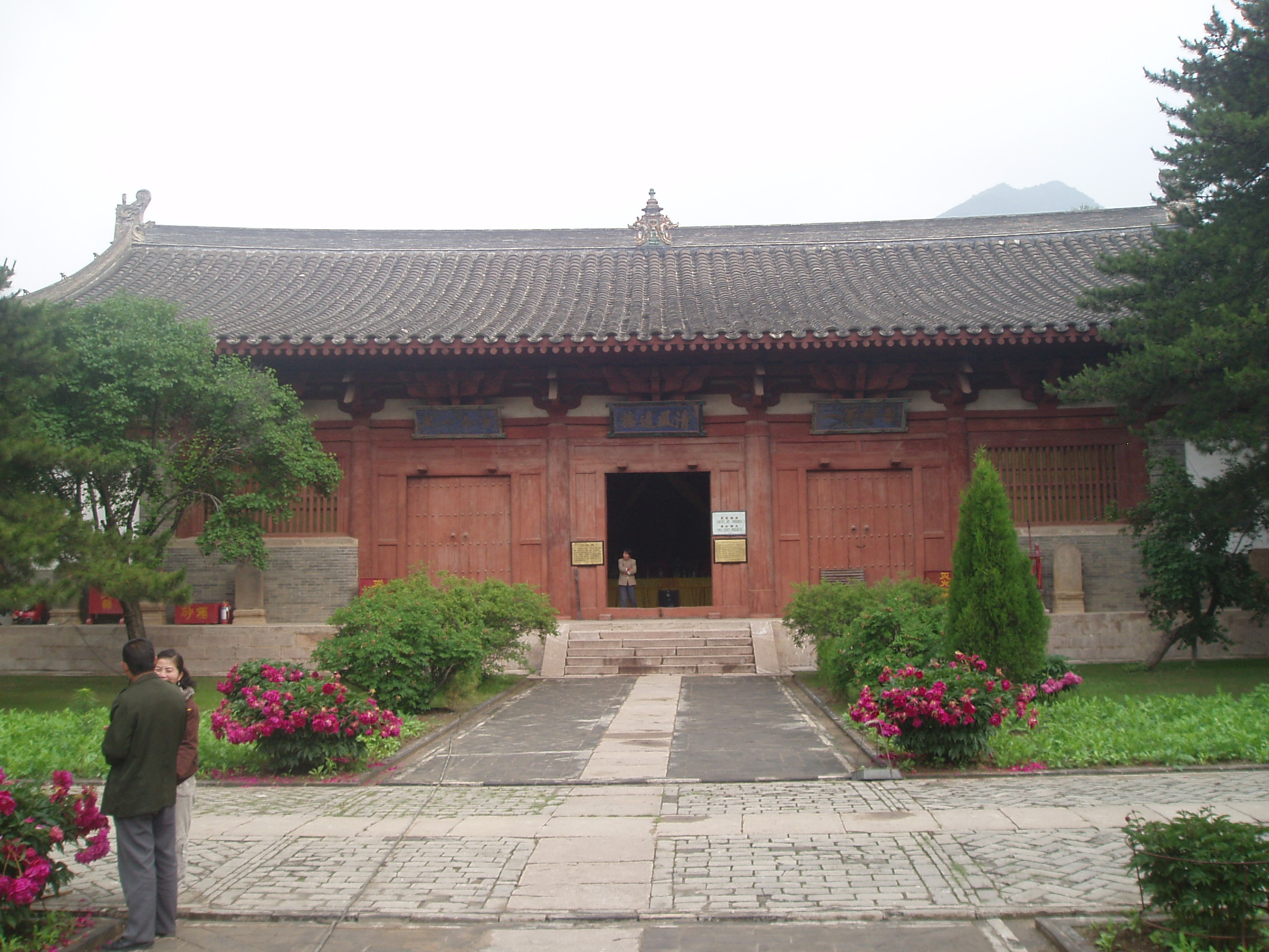 Manjusri Hall of the Foguang Temple in Shanxi, China.